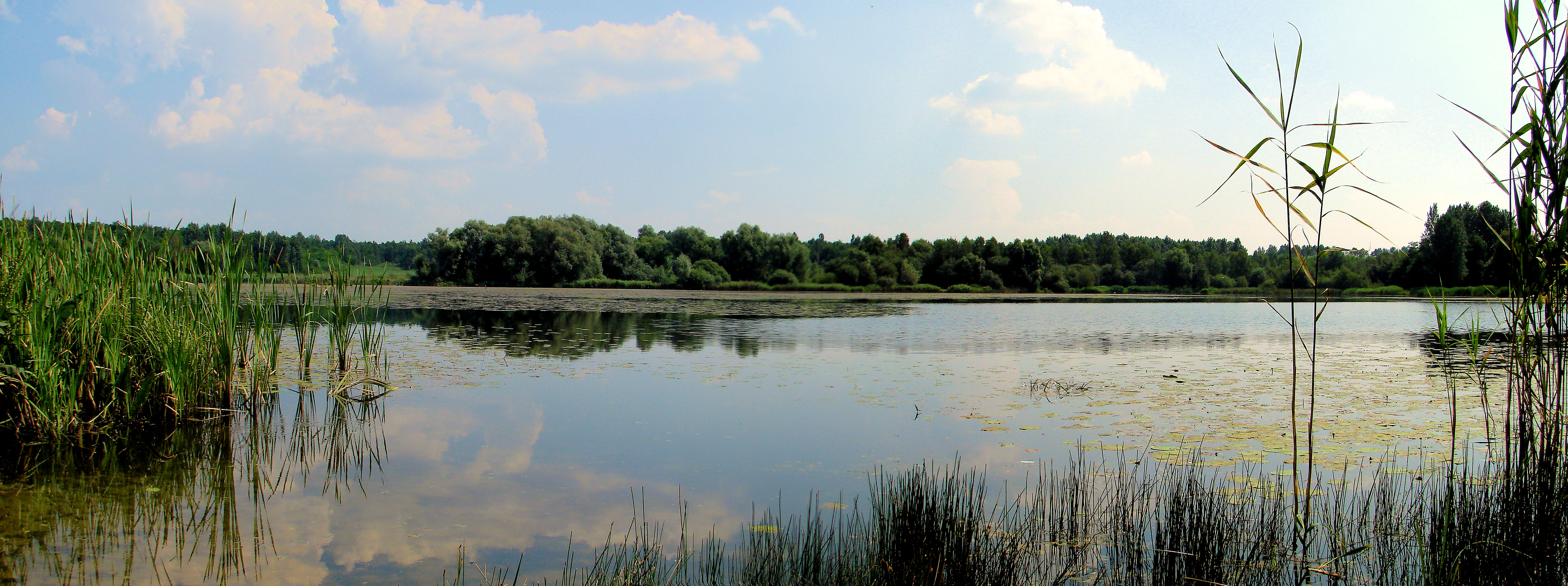 Nature reserve "Pogoria II" in Dąbrowa Górnicza, Poland